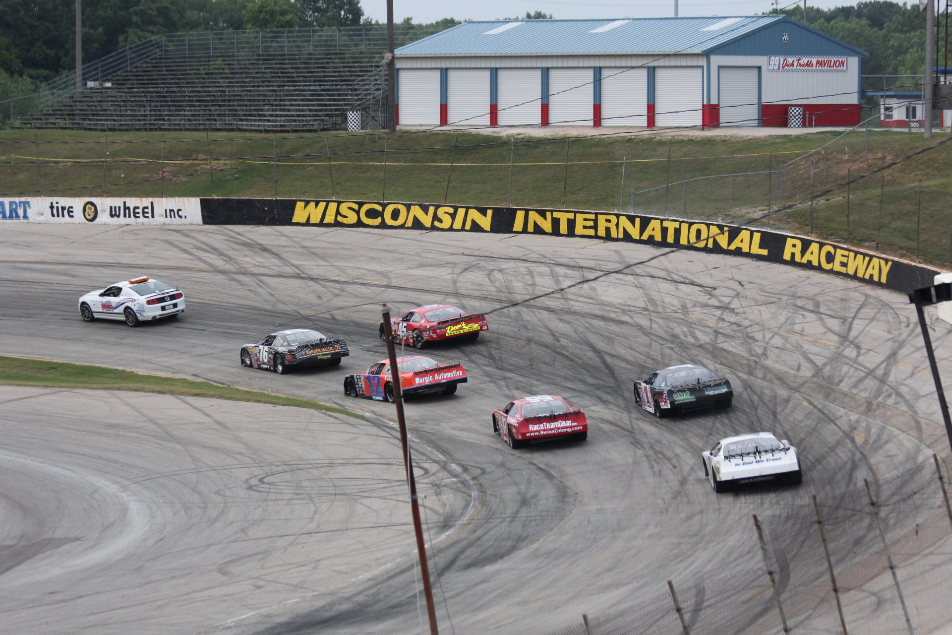 The ARCA Midwest Tour cars in Turn 1 under caution at Wisconsin International Raceway. Drivers: 76 Jason Weinkauf, 45V Jeff VanOudenhoven, 12 Nick Murgic, 87 (red) Nathan Haseleu, 1 Nick Barstad, 5 (white) Johnny Sauter.